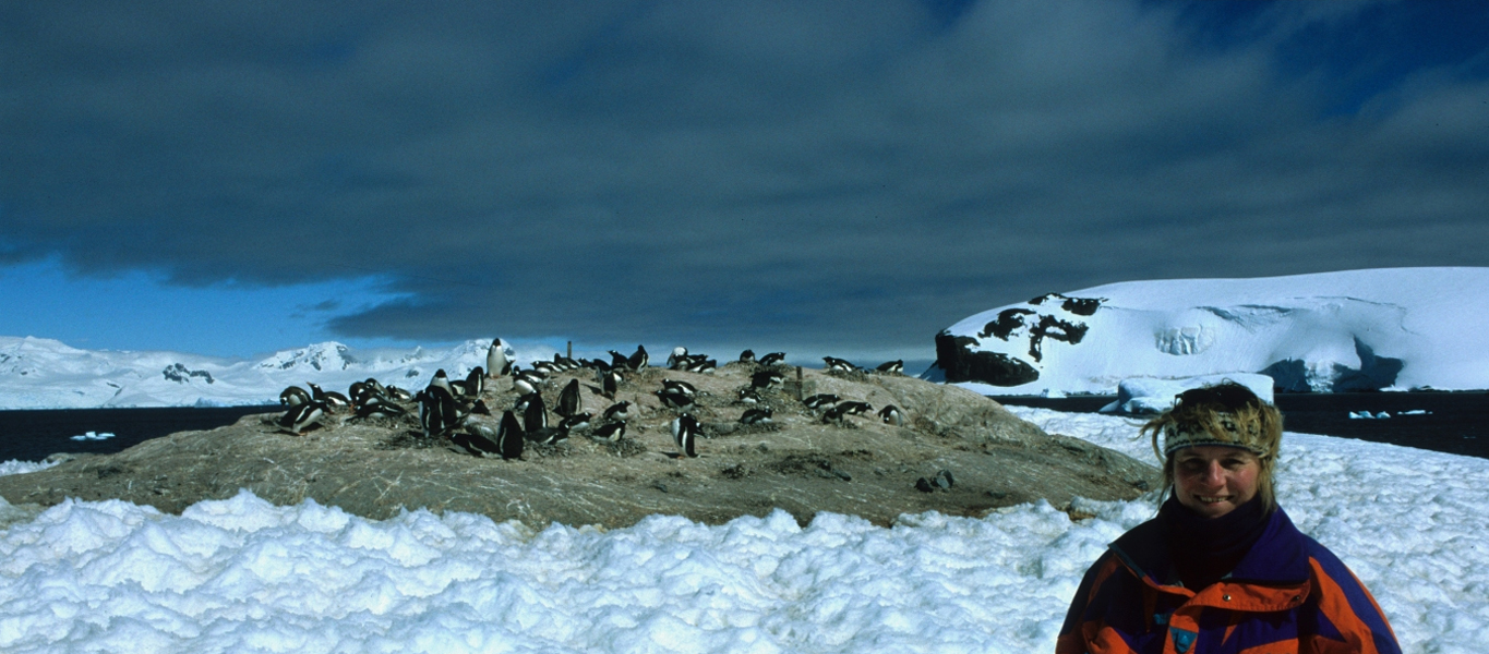 Dr. Monika Puskeppeleit, Mikkelsen Bay, Antarctica